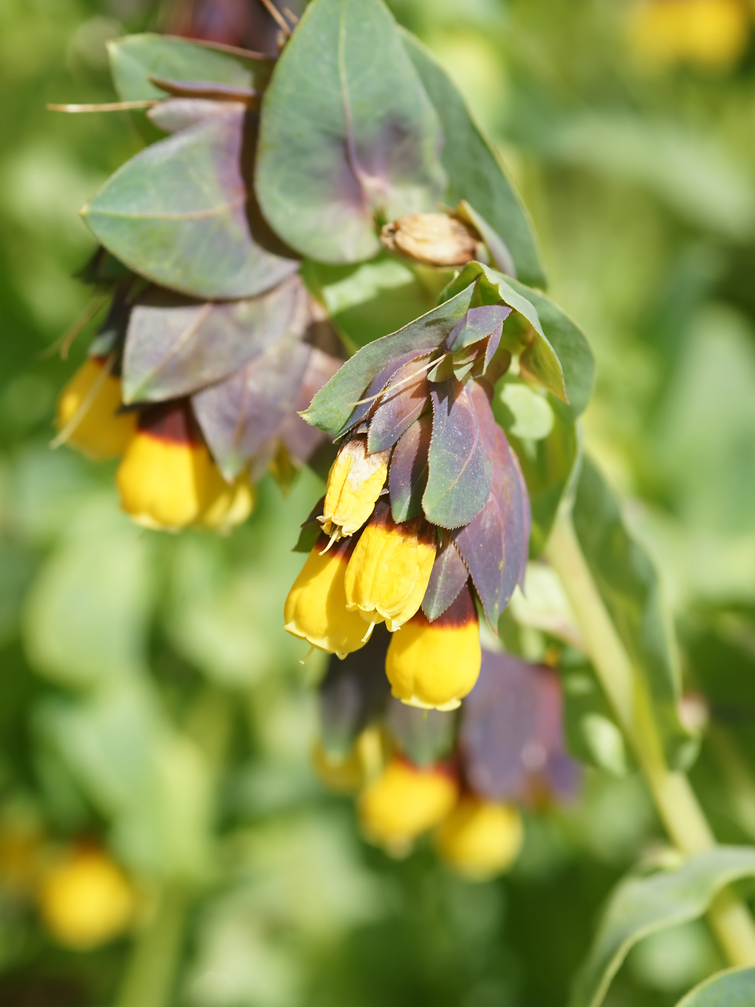 Honeywort near Thiesi, Sardinia, Italy.